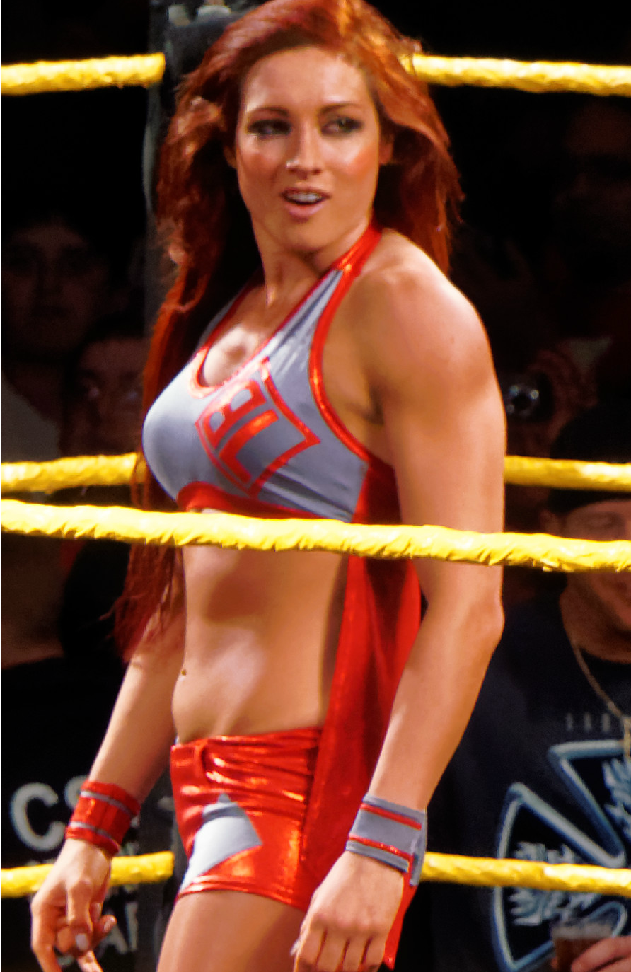 Lynch posing at the ring during an NXT Live event in March 2015.